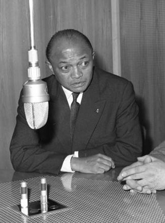 Gabriel Ramanantsoa (1906-1979), President and Prime Minister of Madagascar from 1972 to 1975.